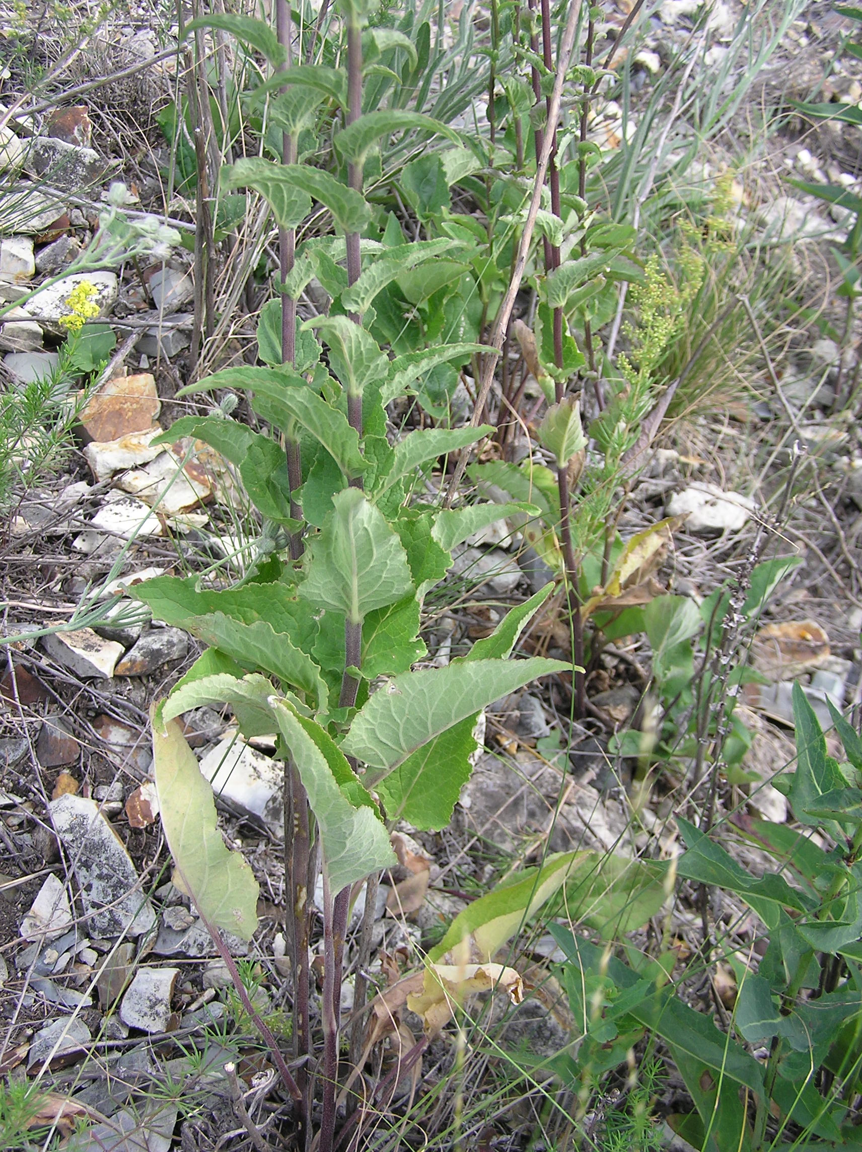 Foliage of Campanula bononiensis L. Habitat: south-eastern rocky slope. Vicinity of Saratov city, Russia.